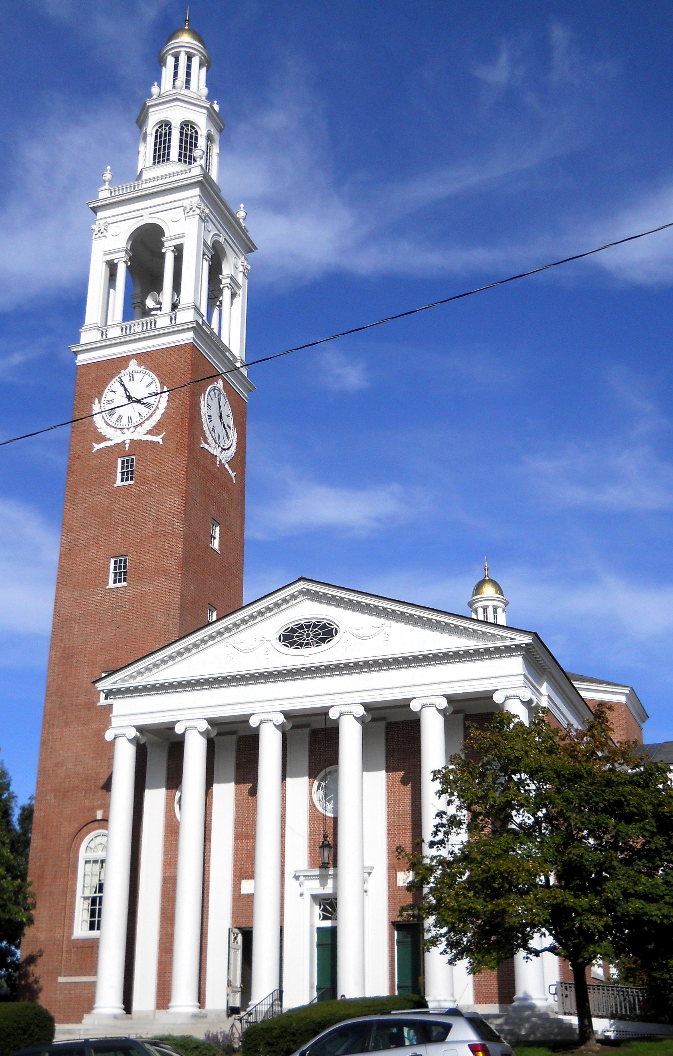 This is the Ira Allen Chapel located on University Place in Burlington, Vermont on the campus of the University of Vermont (UVM). It is named after UVM's founder, Ira Allen.